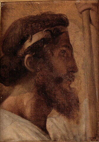 Pisistratus head and left hand of Alcibiades